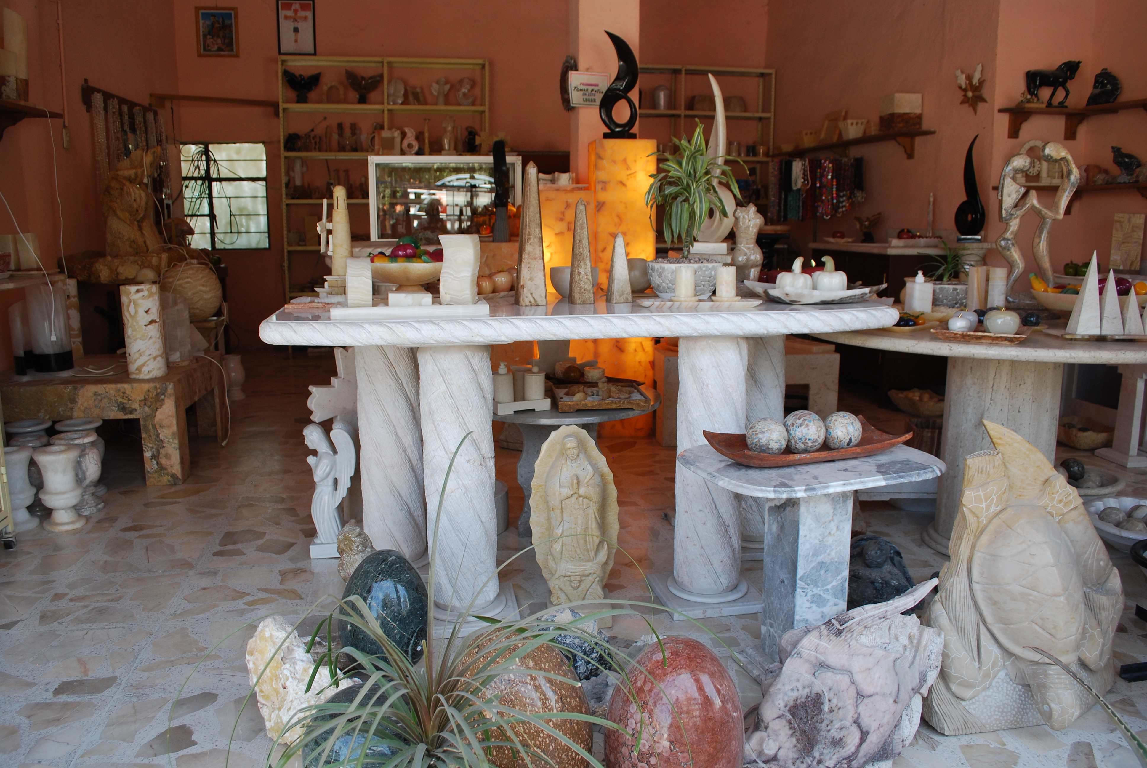 Display of marble crafts at a shop in Vizarrón, Cadereyta de Montes, Querétaro, Mexico